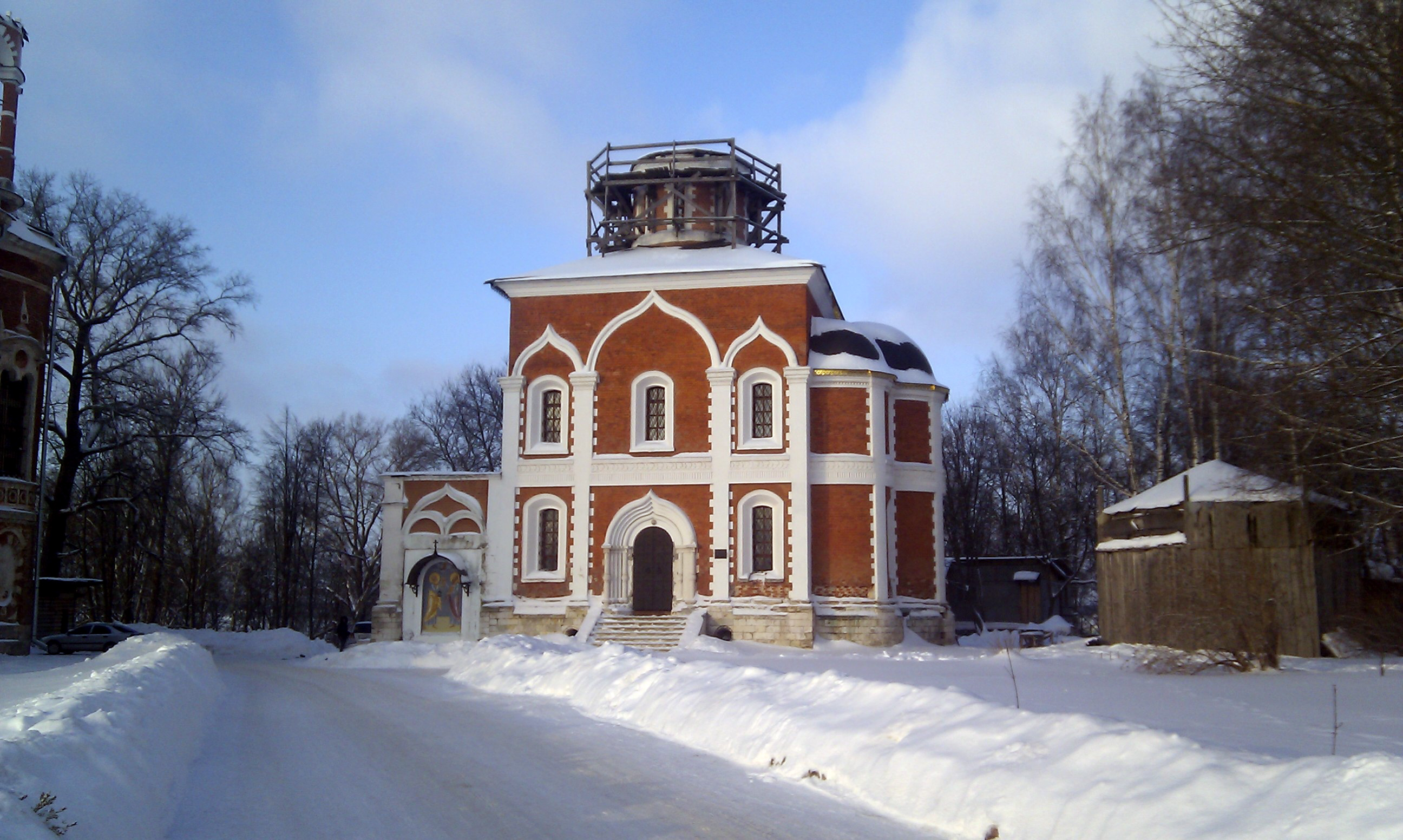 The view from the road to Borodino.